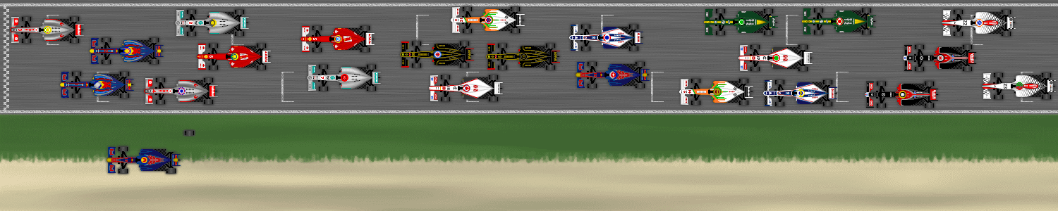 Race result of the 2011 Chinese Grand Prix in Shanghai